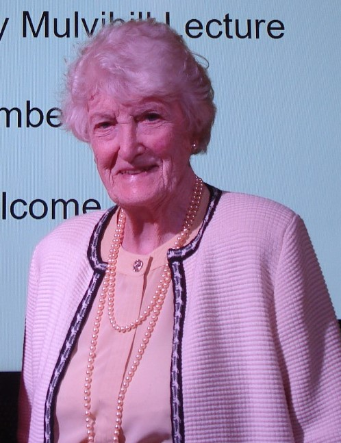 Dervilla M. X. Donnelly having given the Women in Technology and Science (WITS) Mary Mulvihill Lecture on 7 November 2017 in Dogpatch Labs, Dublin.